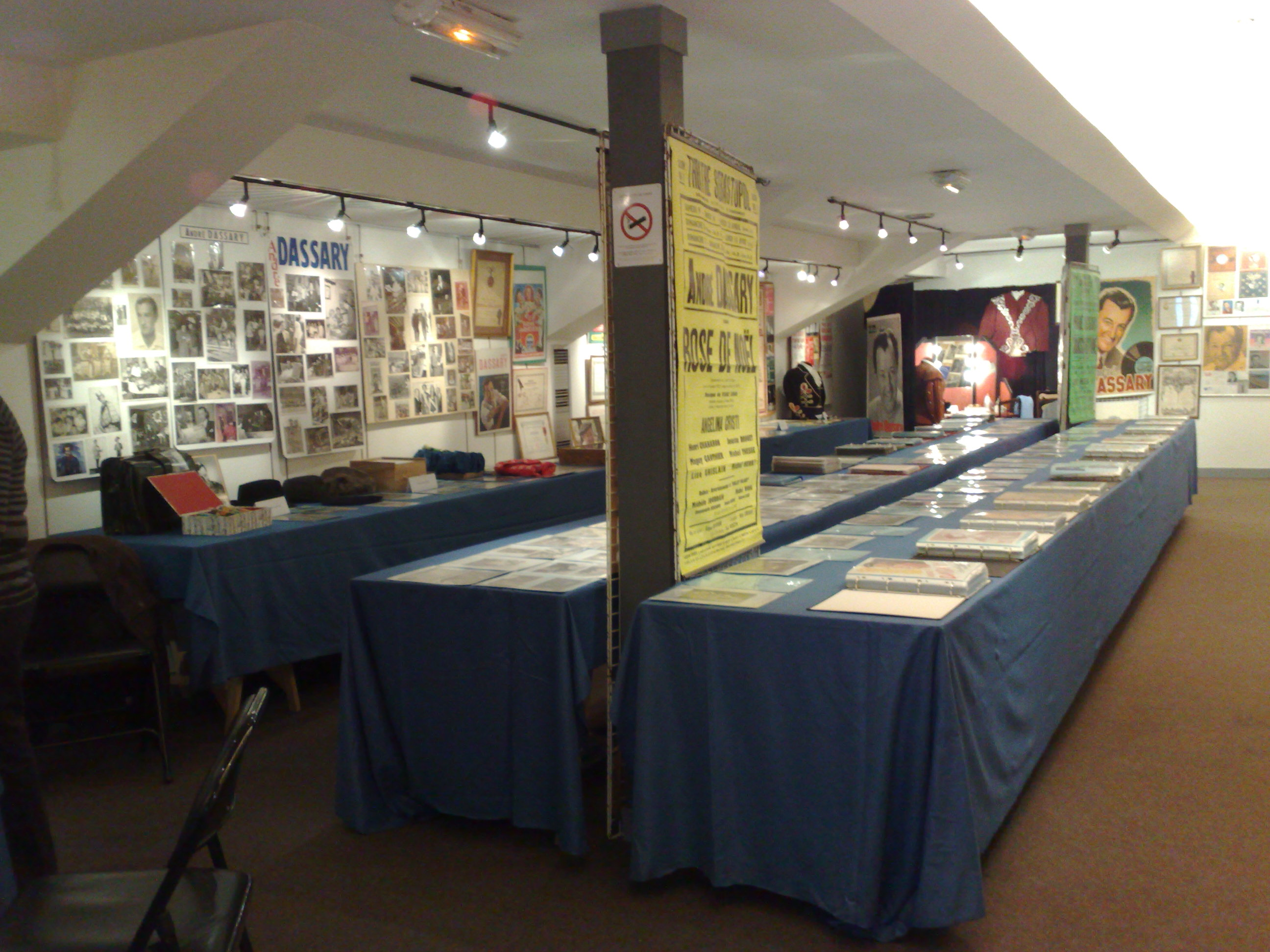 Exhibition about singer André Dassary in his birthplace Biarritz, Labourd, Basque Country at the Colisée.